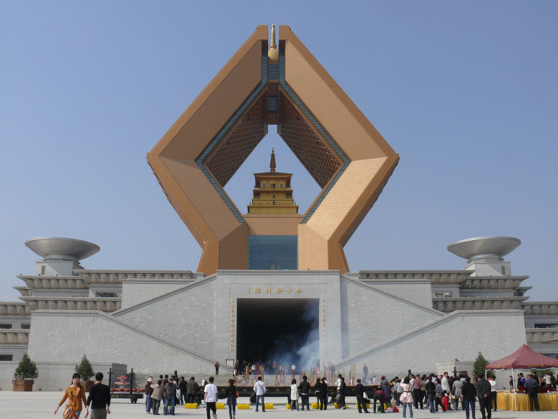 Famen temple in Shaanxi province (China).